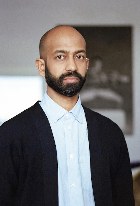 Brendan Fernandes Photo by: Phillip Patton